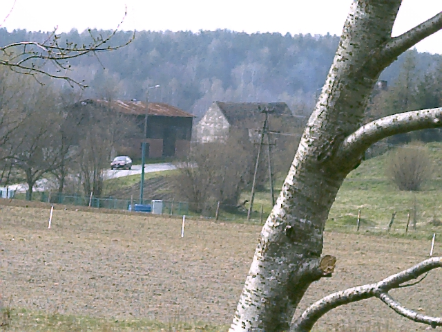 A road outside the Polish community of Objazda